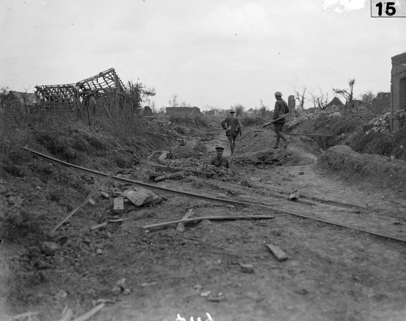 The Battle of the Somme, July-november 1916 Battle of Albert. Ruins on the outskirts of Mametz, July 1916; showing communication trench and wrecked railway line.